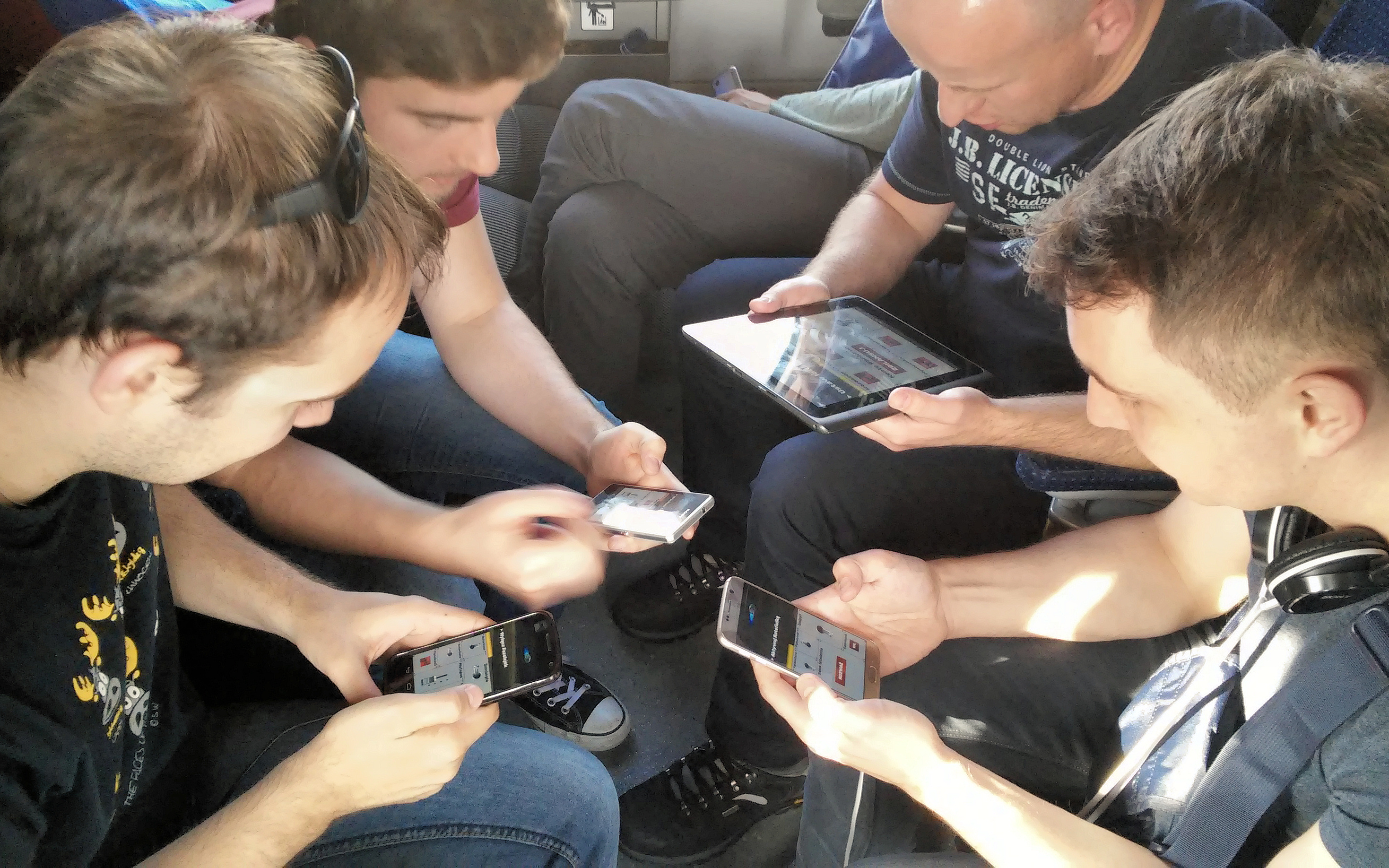 Four people playing "Spaceteam" on their mobile devices connected by wifi/BT.